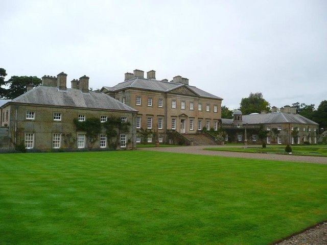 Dumfries House - frontage Dumfries House is an A-listed Palladian mansion built between 1754 and 1760 for the 5th earl of Dumfries by the architect brothers John, Robert and James Adam. The house came by marriage into the ownership of the 1st Marquess of Bute in 1803; it was put up for sale by John Dumfries, the 6th Marquess, and in 2007 purchased by a consortium led by HRH The Prince of Wales, Duke of Rothesay.